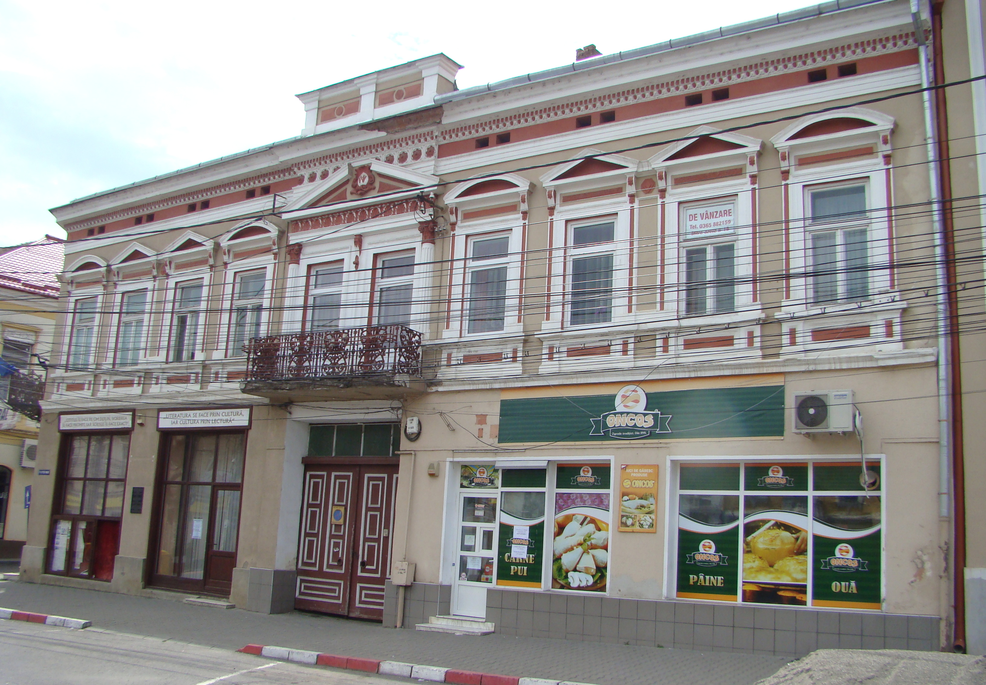 House, historic monument, in Reghin, Petru Maior square, nr.2